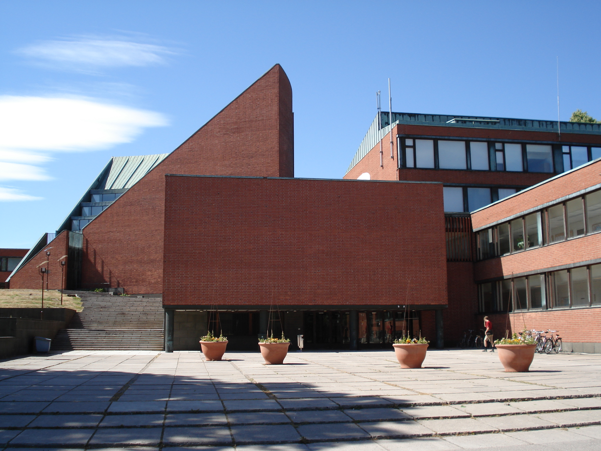 Helsinki University of Technology - Main Building designed by Alvar Aalto Source: Photo by me, User:Balcer. Photo taken on July 16, 2006.